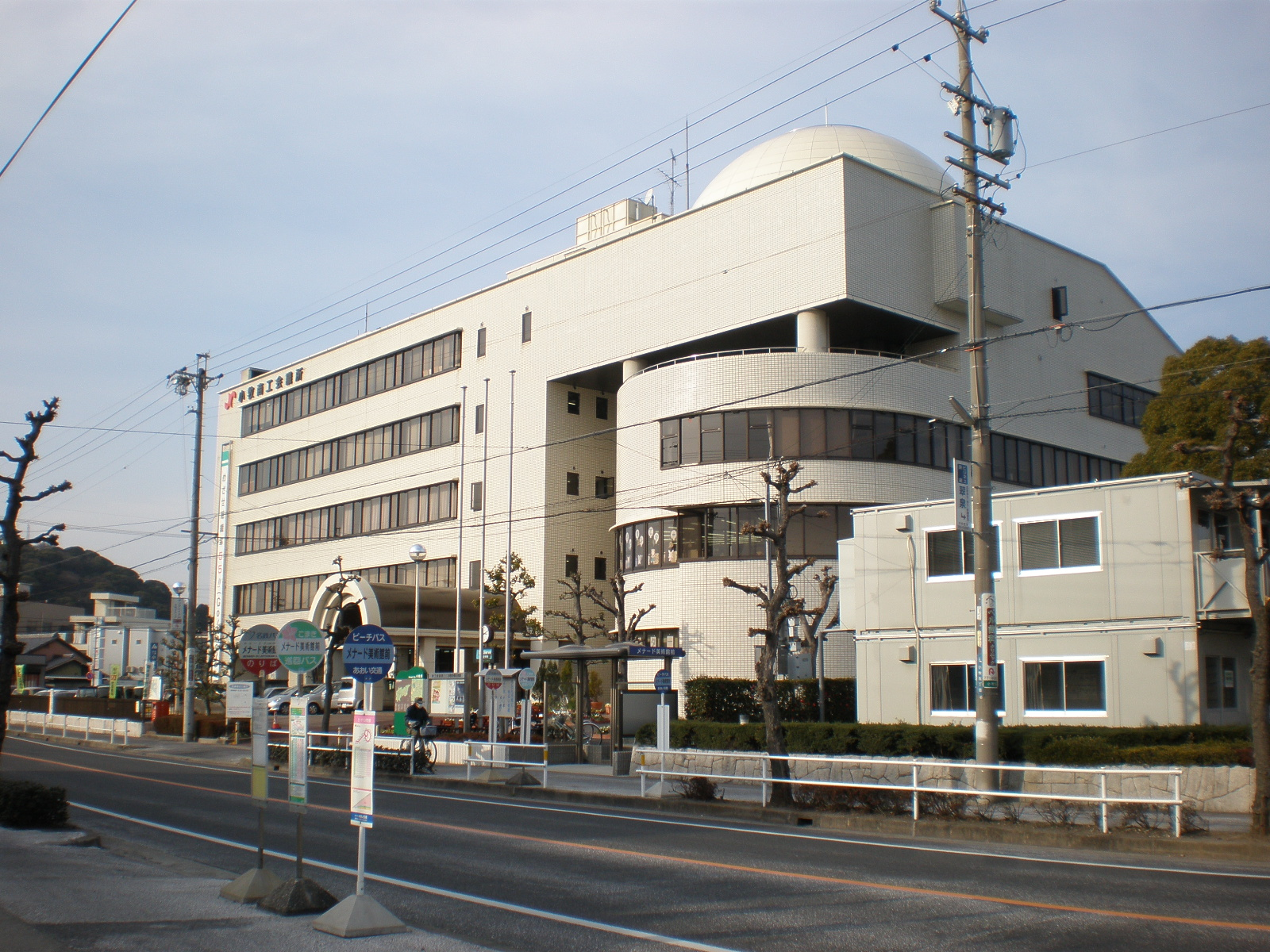 "Komaki Chamber of Commerce and Industries" & "Komaki Central Public Hall"